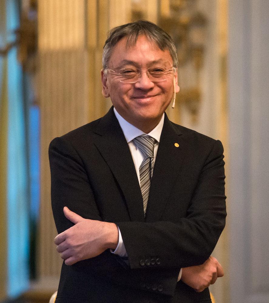 Kazuo Ishiguro in Stockholm during the Swedish Academy's press conference on December 6, 2017.